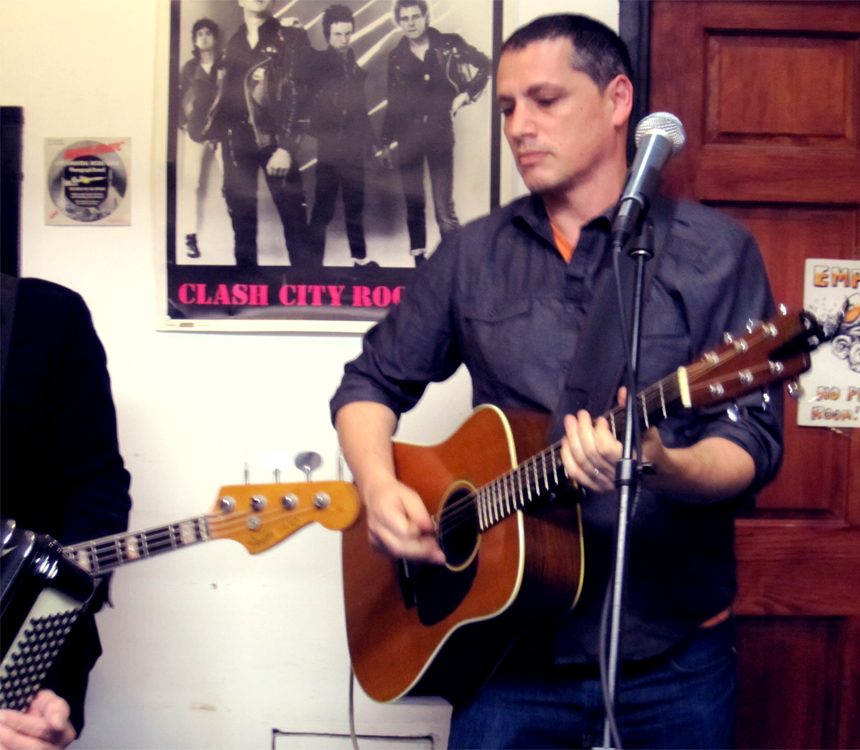 Dan Miller performing live with They Might Be Giants in Academy Records Annex, on 16 April 2013